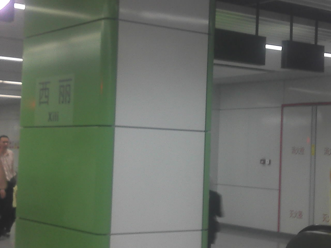 This photo was taken as Nov 19, 2011.